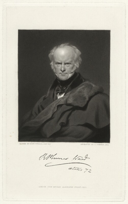 Portrait of Robert Plumer Ward (1765–1846), English barrister, politician, and novelist.